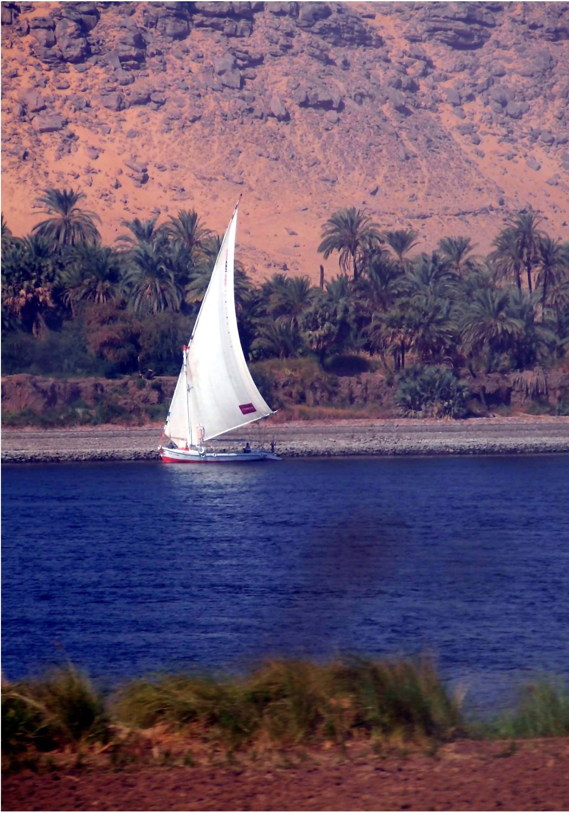 Dhows traversing the Nile near Aswan